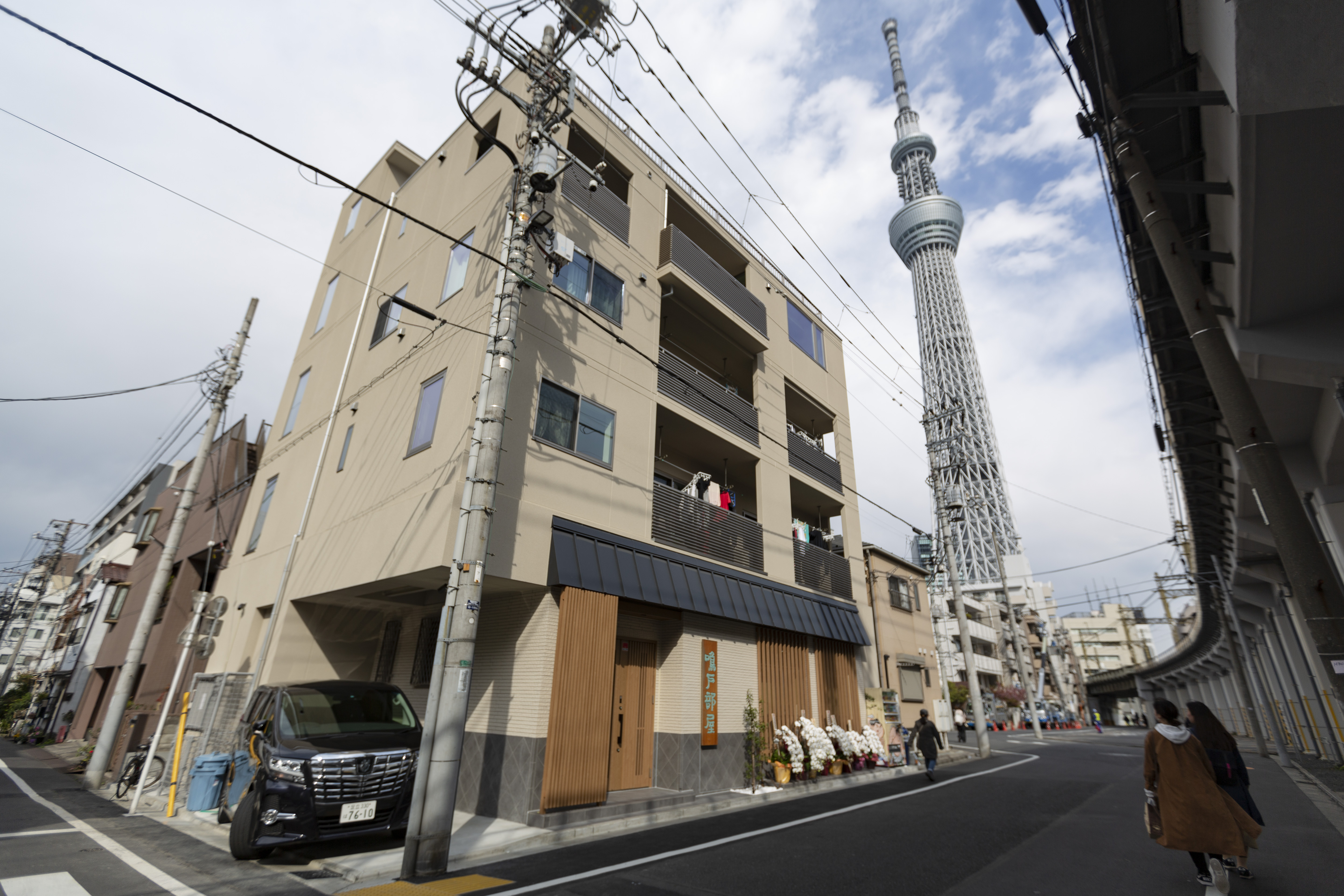 Photo of Naruto Stable (sumo wrestling building). Relocated to Mukojima, Sumida-ku in March 2019. Naruto stable was established by Kotoōshū Katsunori (Andō Karoyan). In the background is Tokyo Skytree.